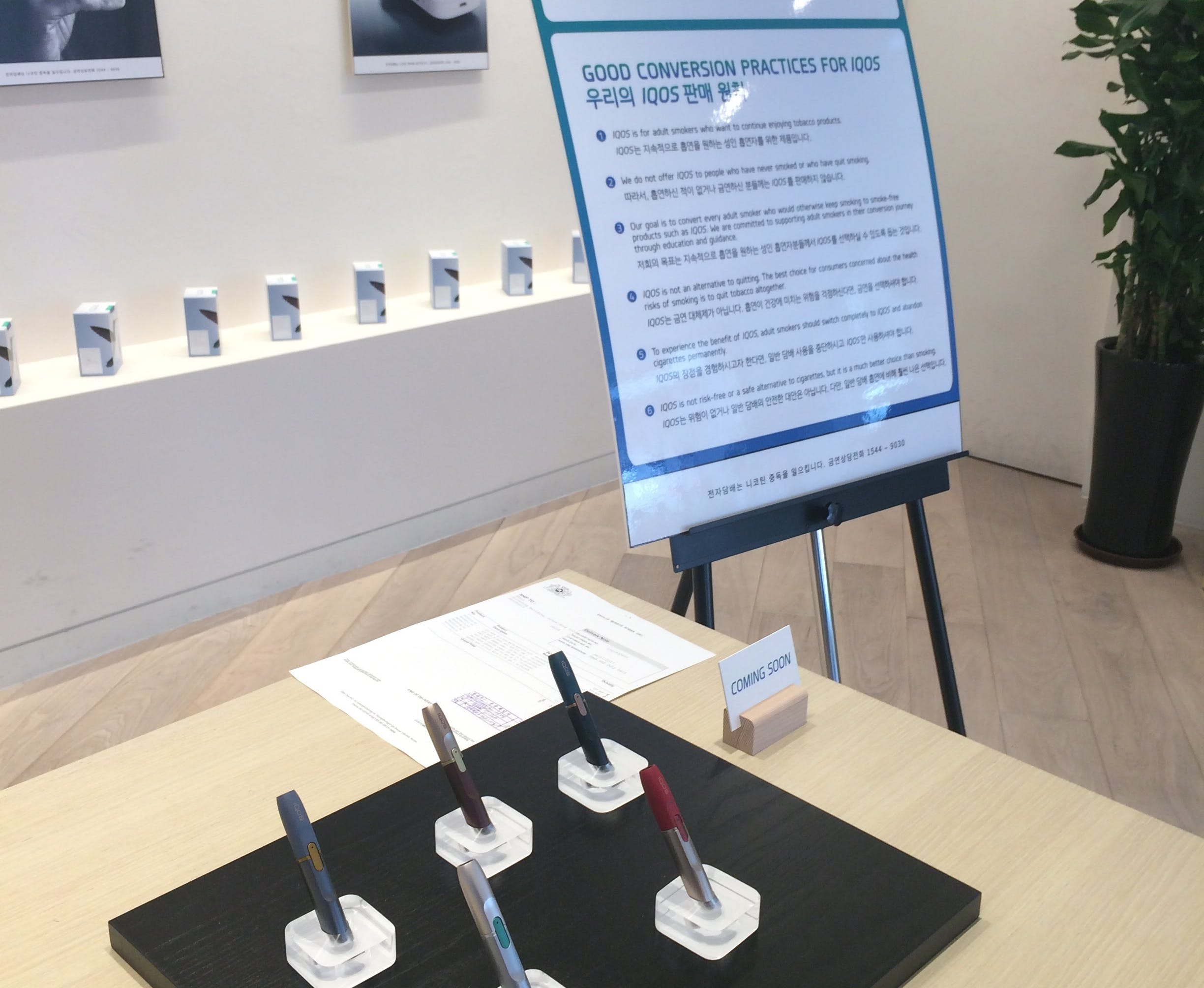 A store for selling IQOS products in Korea, designed to look like a high-end tech store. The tripod holds rules for salespeople.